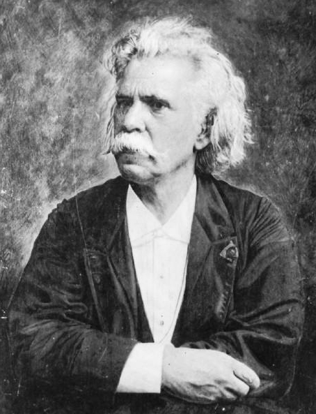 Brazilian composer Antônio Carlos Gomes (1836-1896). Photograph of a painting dated ca. 1900.